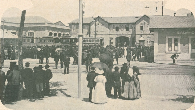 Boavista tram depot, in the city of Porto, in Portugal. This photograph was taken during a meeting about the strike of the tram company workers. This image was published on the Ilustração Portuguesa magazine No. 180, of the 2nd August 1909, and scanned by the Hemeroteca Municipal de Lisboa.